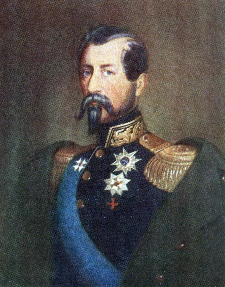 King Oscar I of Sweden and Norway (1799-1859)